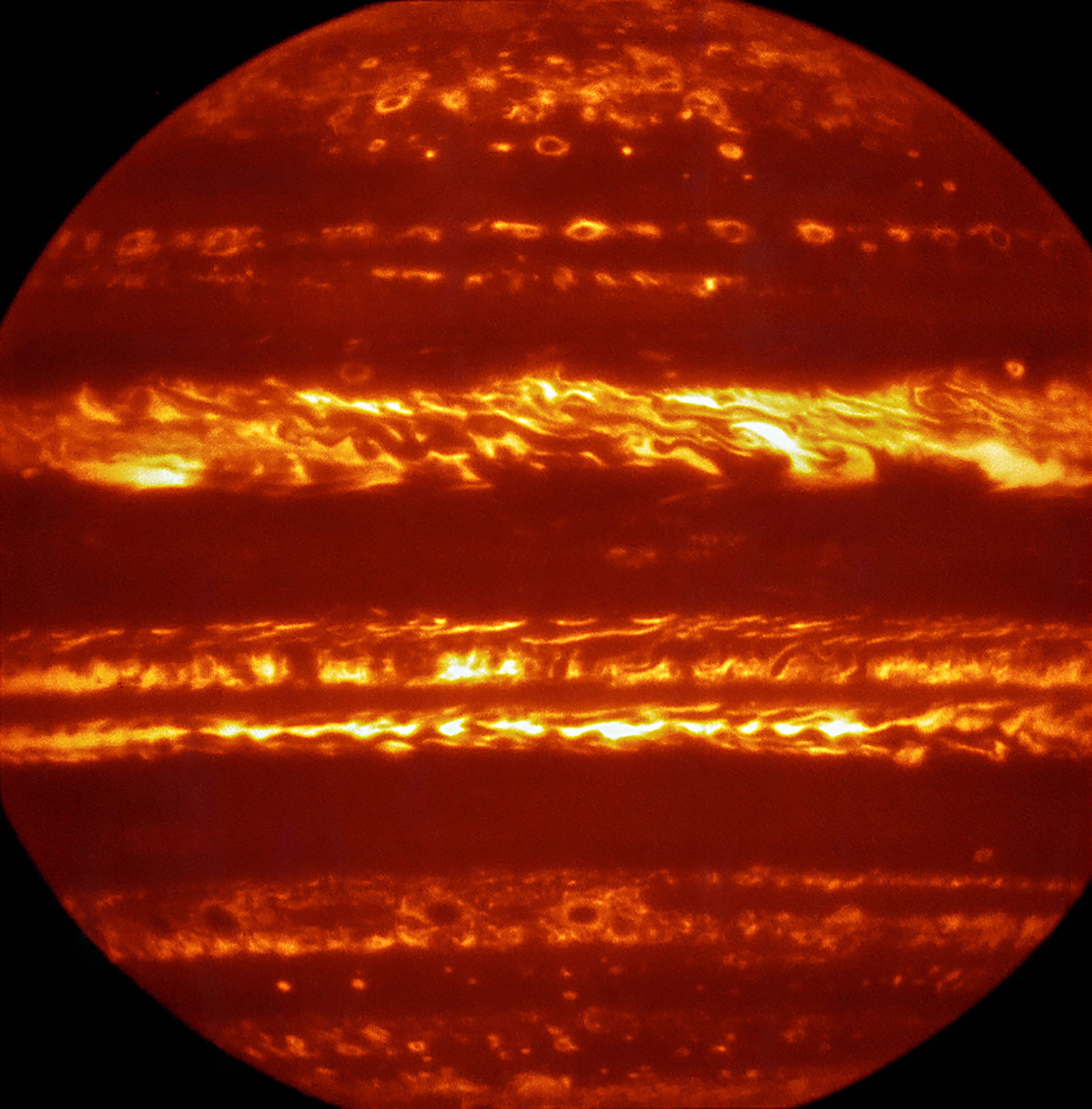 In preparation for the imminent arrival of NASA’s Juno spacecraft in July 2016, astronomers used ESO’s Very Large Telescope to obtain spectacular new infrared images of Jupiter using the VISIR instrument. They are part of a campaign to create high-resolution maps of the giant planet to inform the work to be undertaken by Juno over the following months, helping astronomers to better understand the gas giant. This false-colour image was created by selecting and combining the best images obtained from many short VISIR exposures at a wavelength of 5 micrometres.